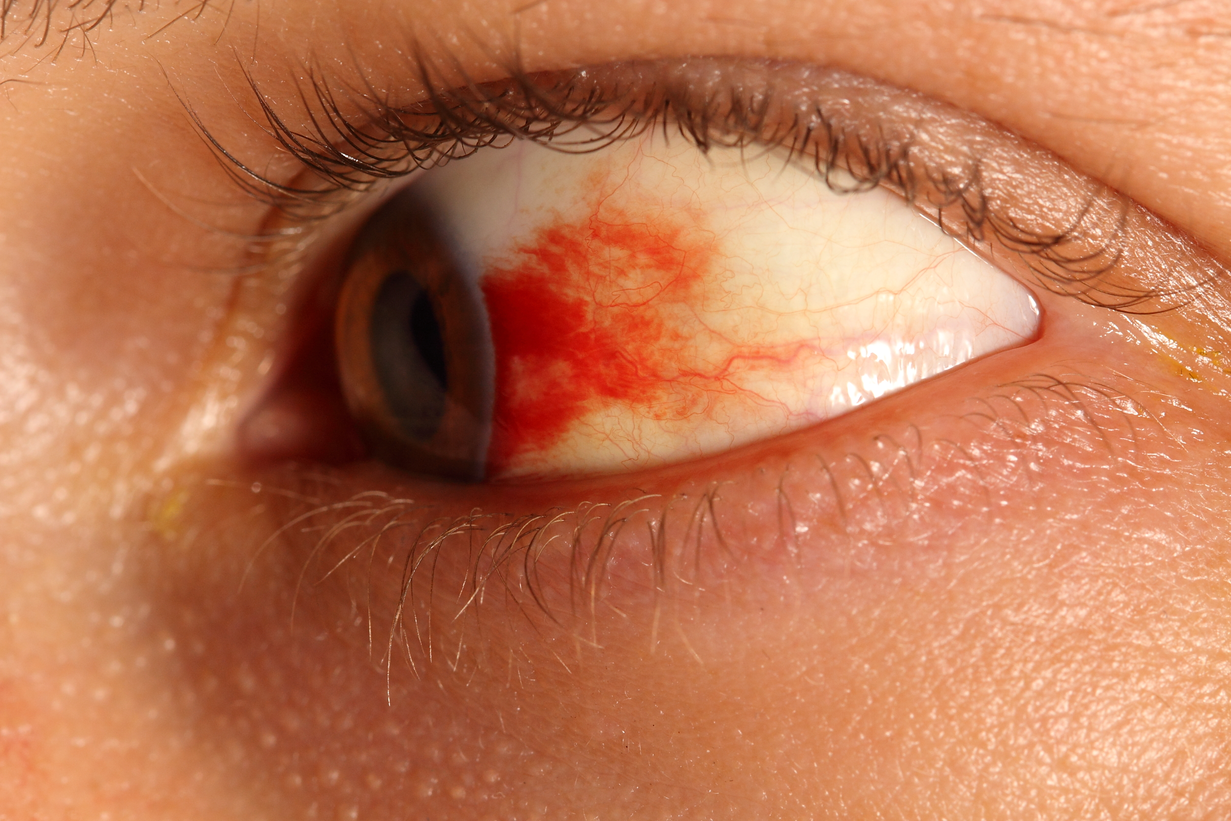 Subconjunctival hemorrhage eye. Broken blood vessel.